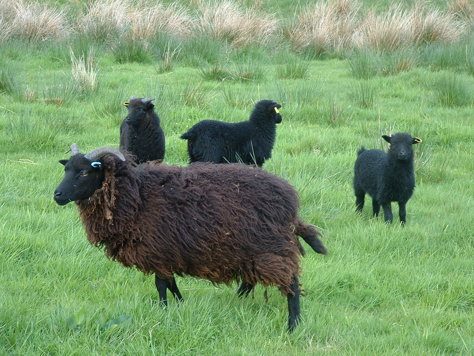 Hebridean Sheep and lambs from Tulloch Flock May 2004